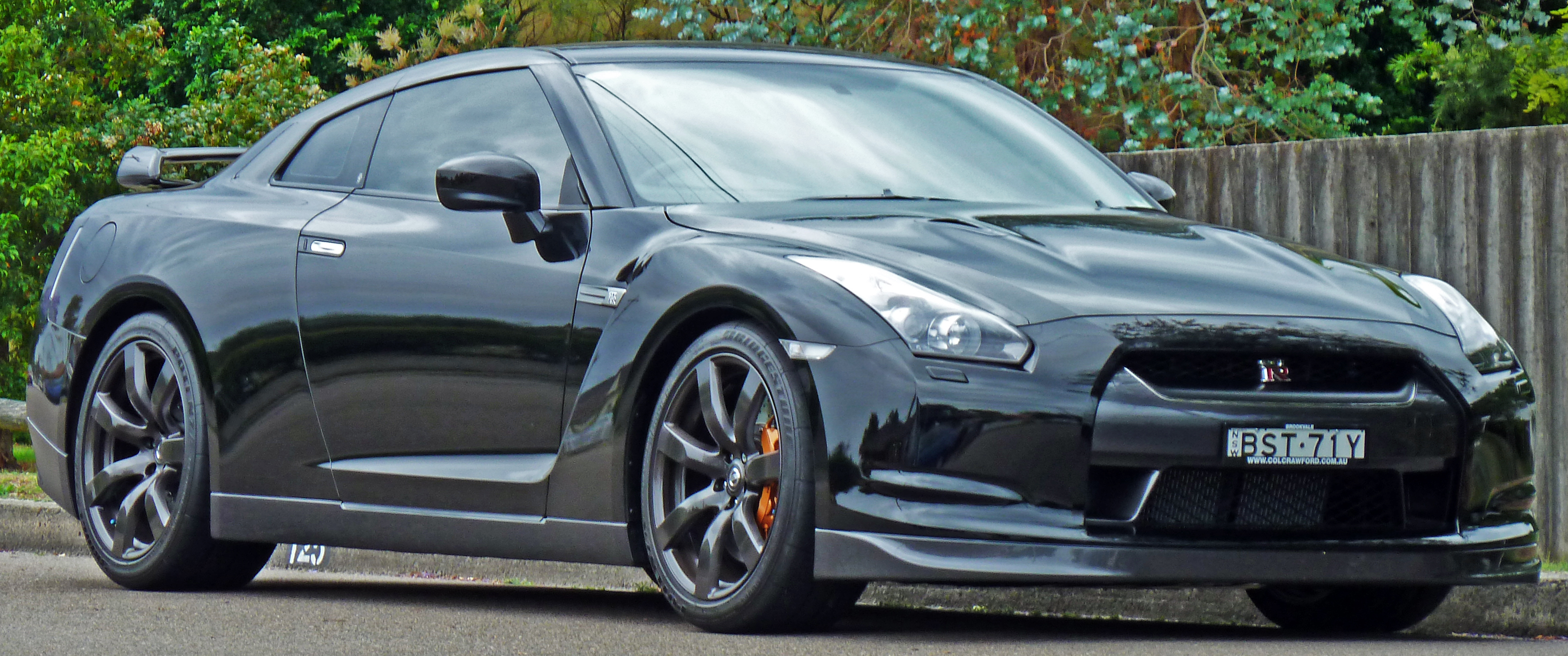 2009–2010 Nissan GT-R (R35) coupe. Photographed in Sans Souci, New South Wales, Australia.